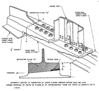 An illustration of the wing root of the Martin 2-0-2 aircraft operating as Northwest Orient Airlines Flight 421 that crashed on 29 August 1948 due to structural failure of the wings. From image description: "Schematic section of separation of lower flange showing fatigue area and also sudden increase of depth of flange 'a' to approximately twice the depth as indicated by 'b'."